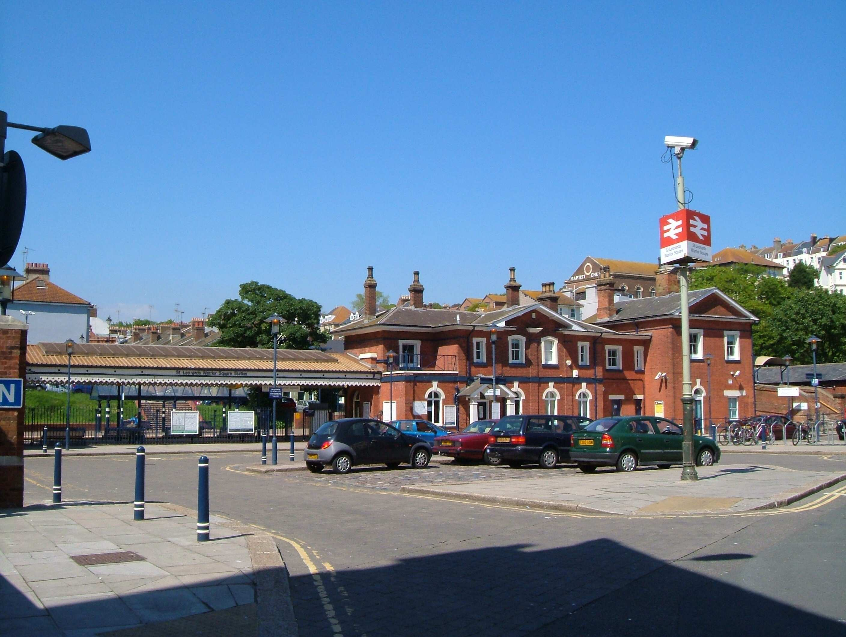 Warriors Square station in Hastings, Sussex, England